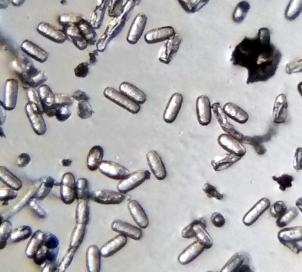 powdery mildew